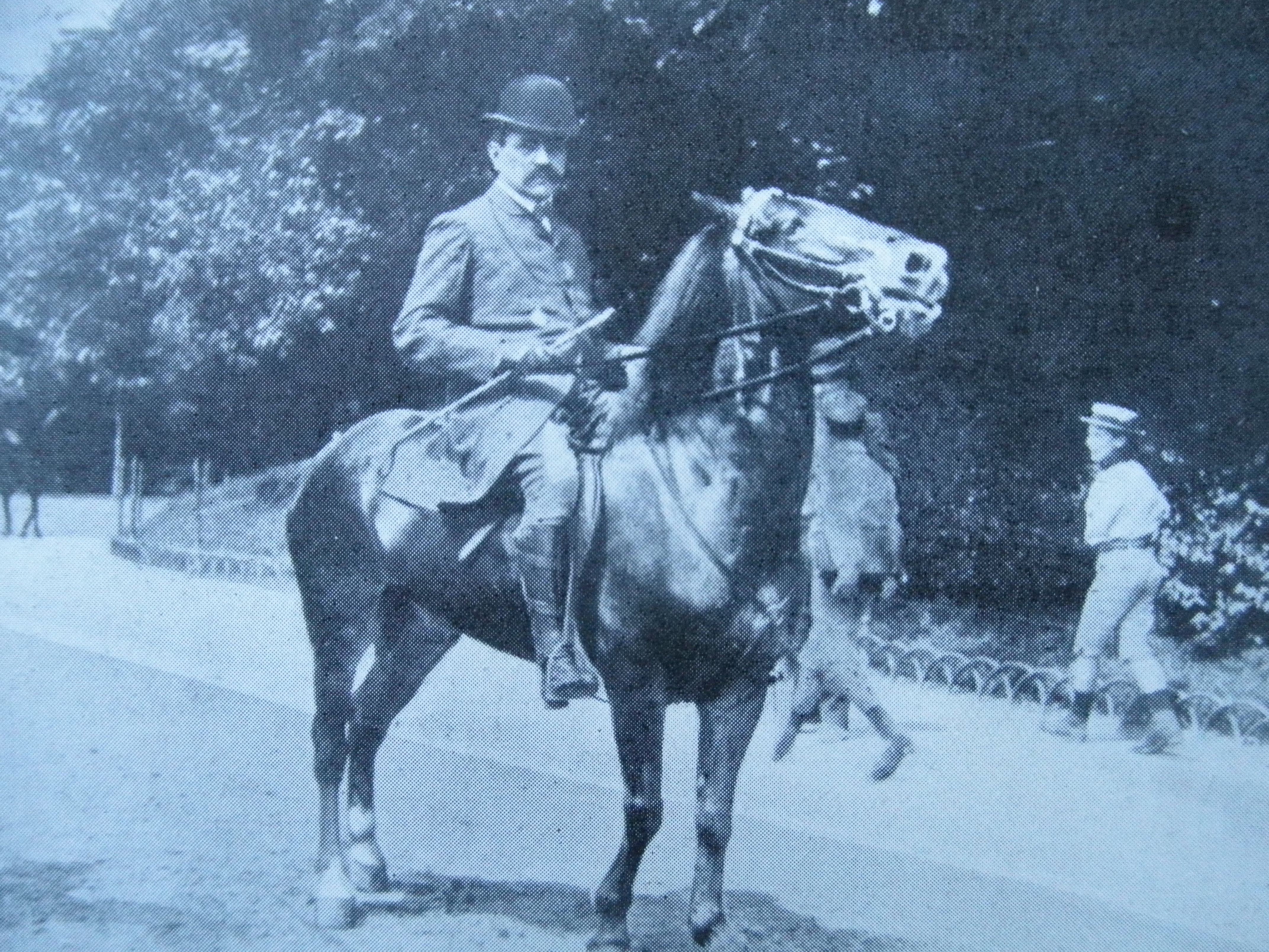 bourget